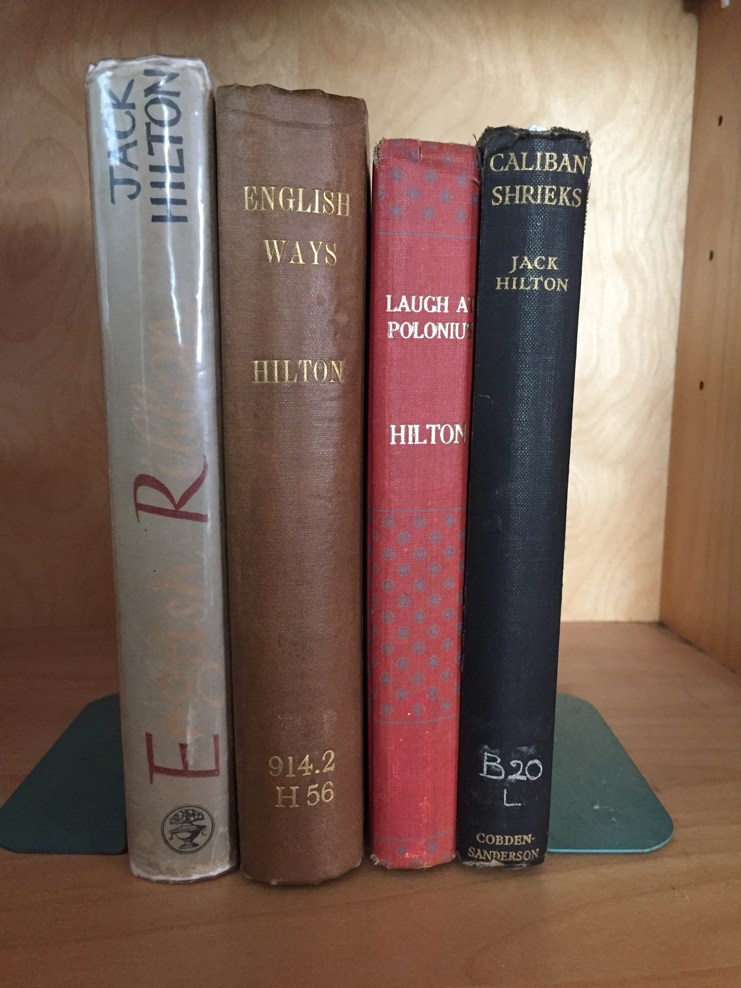 A collection of Hilton's books, on a shelf